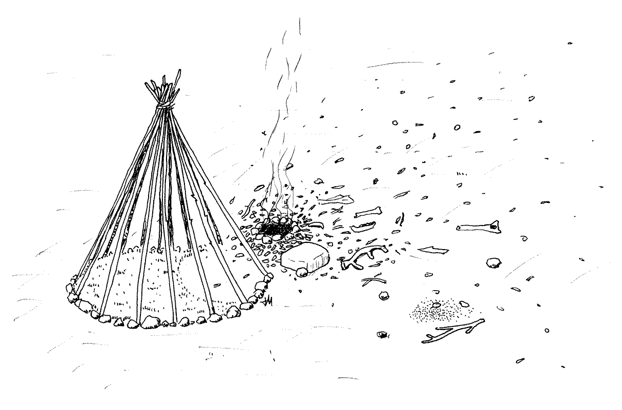 A Magdalenian tent from Pincevent (Ile-de-France), near Fontainebleau, France. It dates to 12.000 BCE